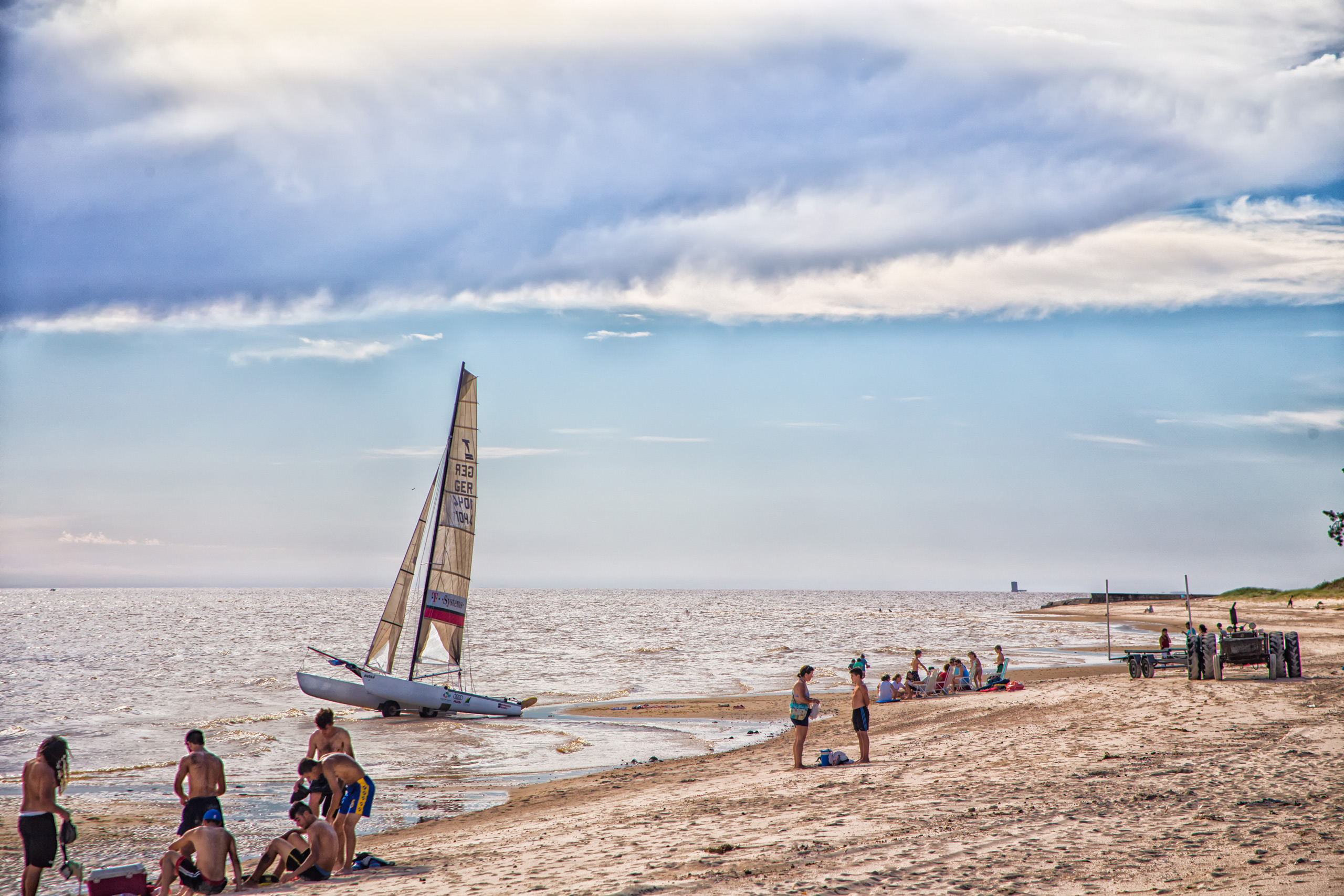 Beach Arazati , San José Uruguay, sports, yacht,camping sand over River Rio de la Plata , nature amazing